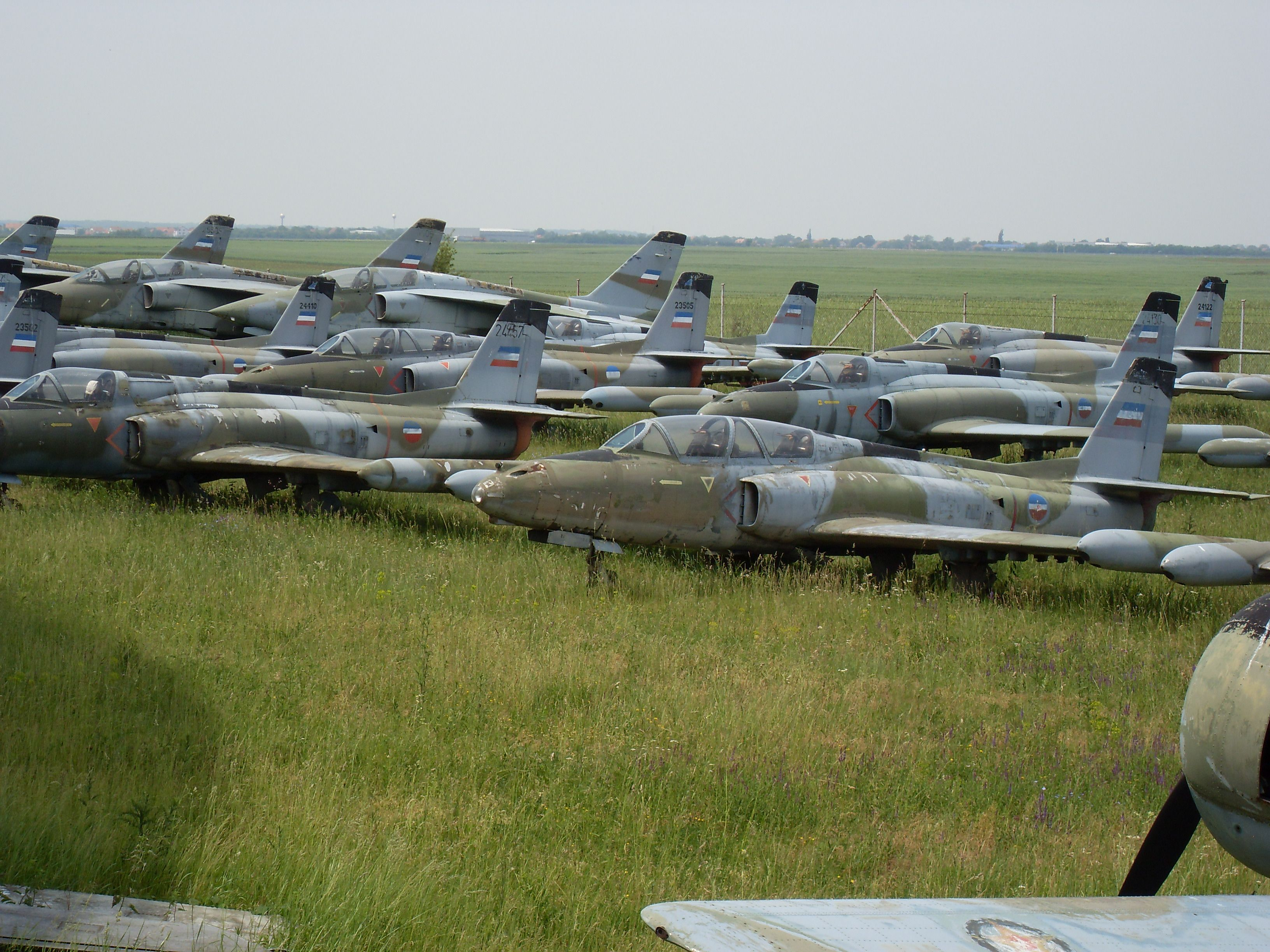 Soko J-21 Jastreb in the Air museum in Belgrade